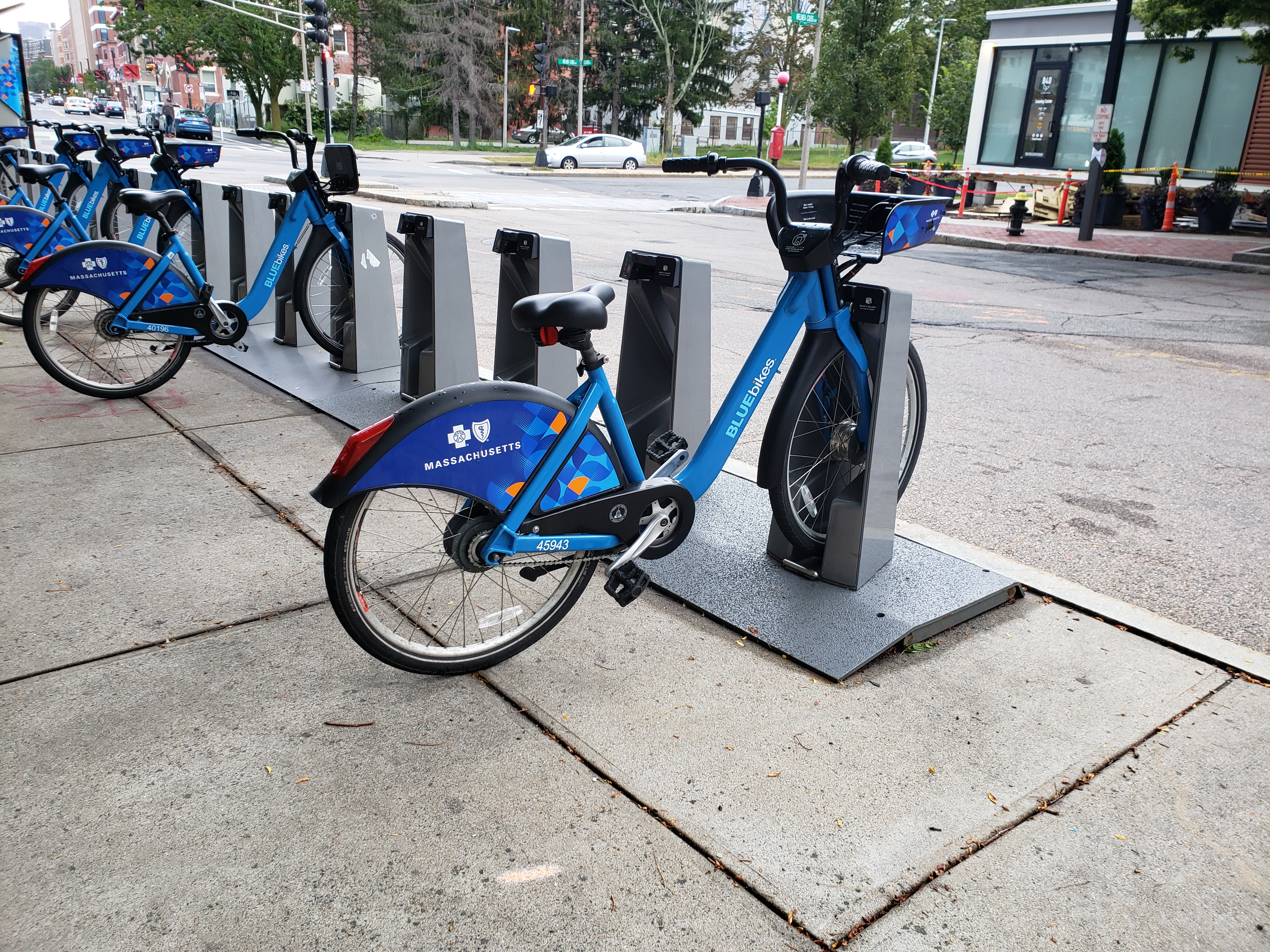 Bluebikes located at the Ruggles Bluebikes station in Boston, MA.